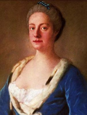 Mary Doublet, Countess of Holderness (ca. 1721 - 1801) painted by Jean-Étienne Liotard in 1745